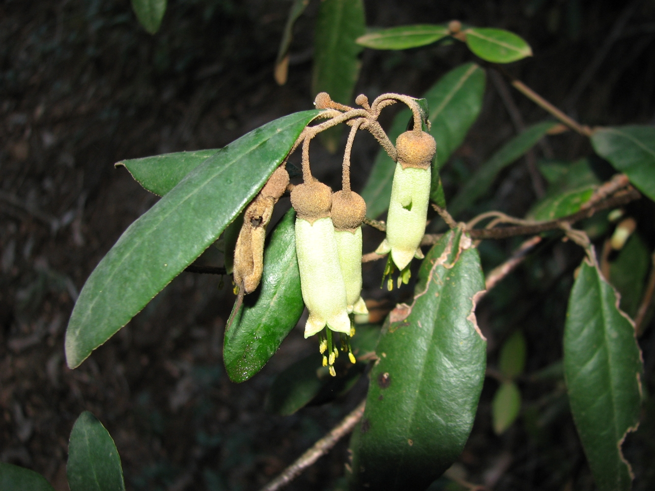 Correa lawrenceana Yarra Ranges National Park, Victoria, Australia